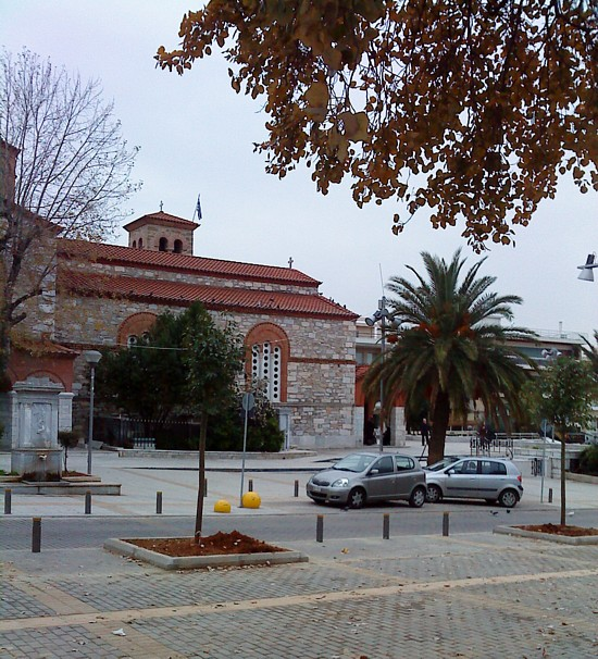 Agios Nikolaos church at the main Chalandri square after municipal works of 2009-2010.